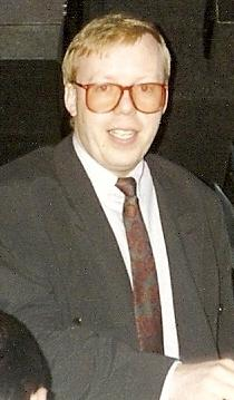 Rune Hauge, football agent from Norway